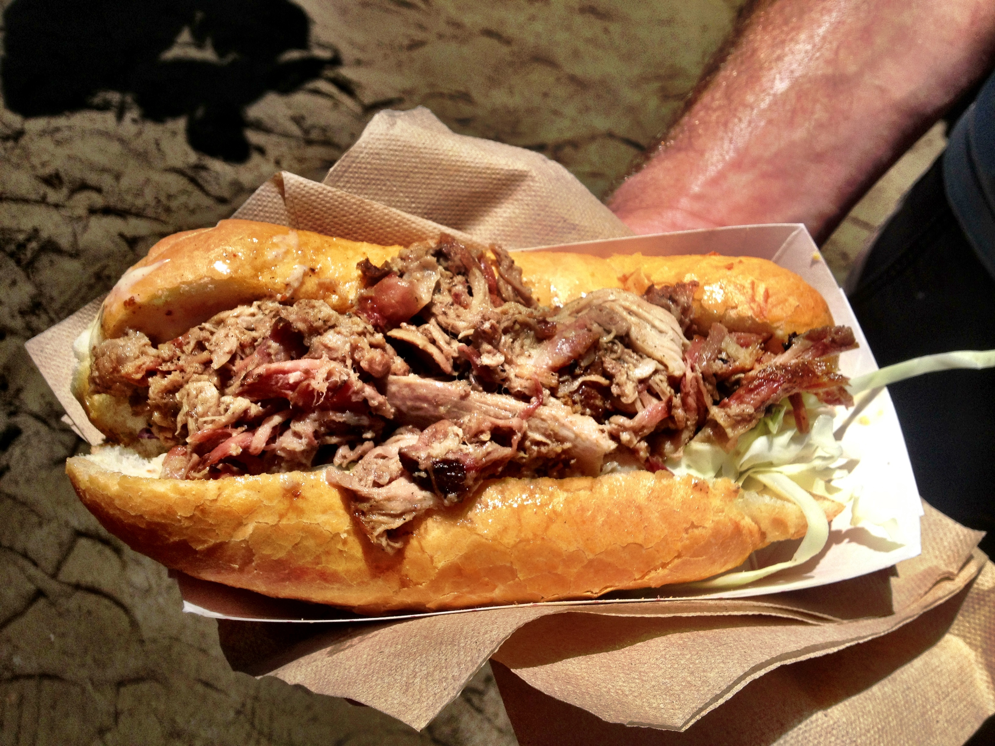 Cochon de Lait Po-Boy